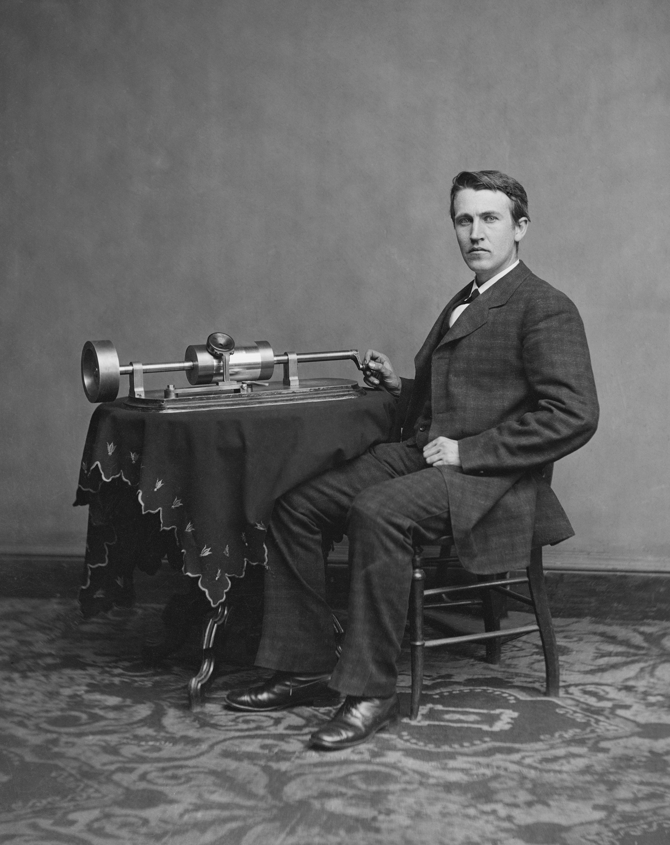 Thomas Edison and his early phonograph. Cropped from U.S.A. Library of Congress copy. Edited Version. Dust removed by Arad.